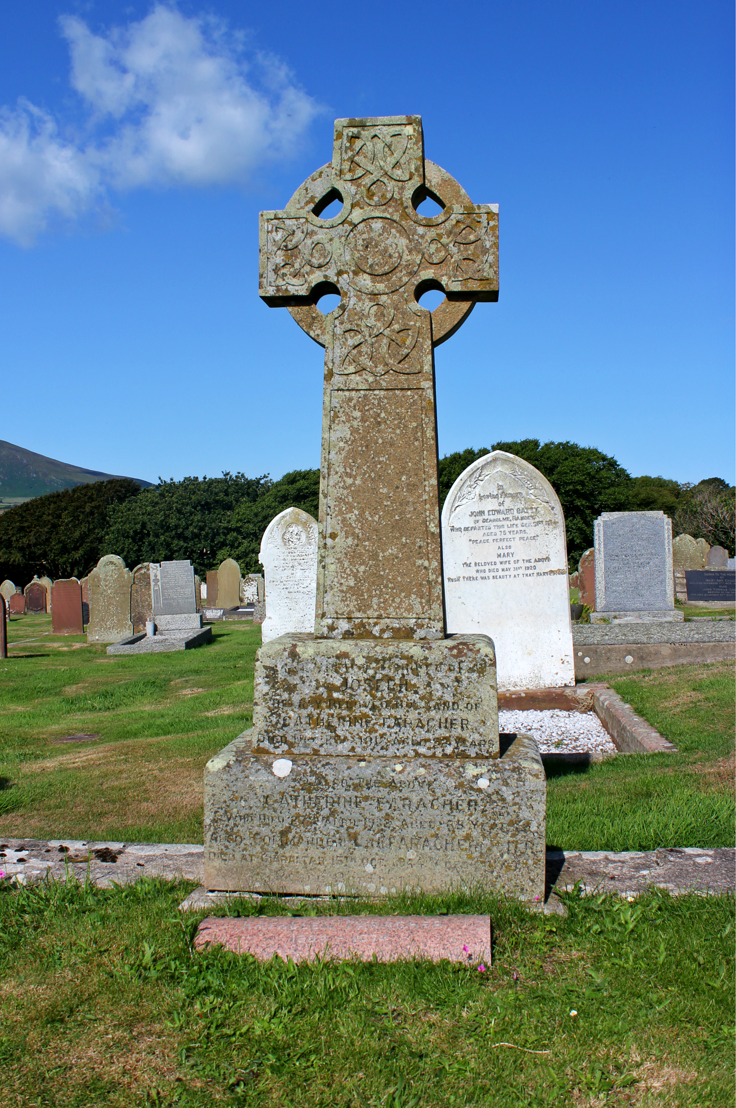 The gravestone of the Manx poet, Kathleen Faragher, and her family